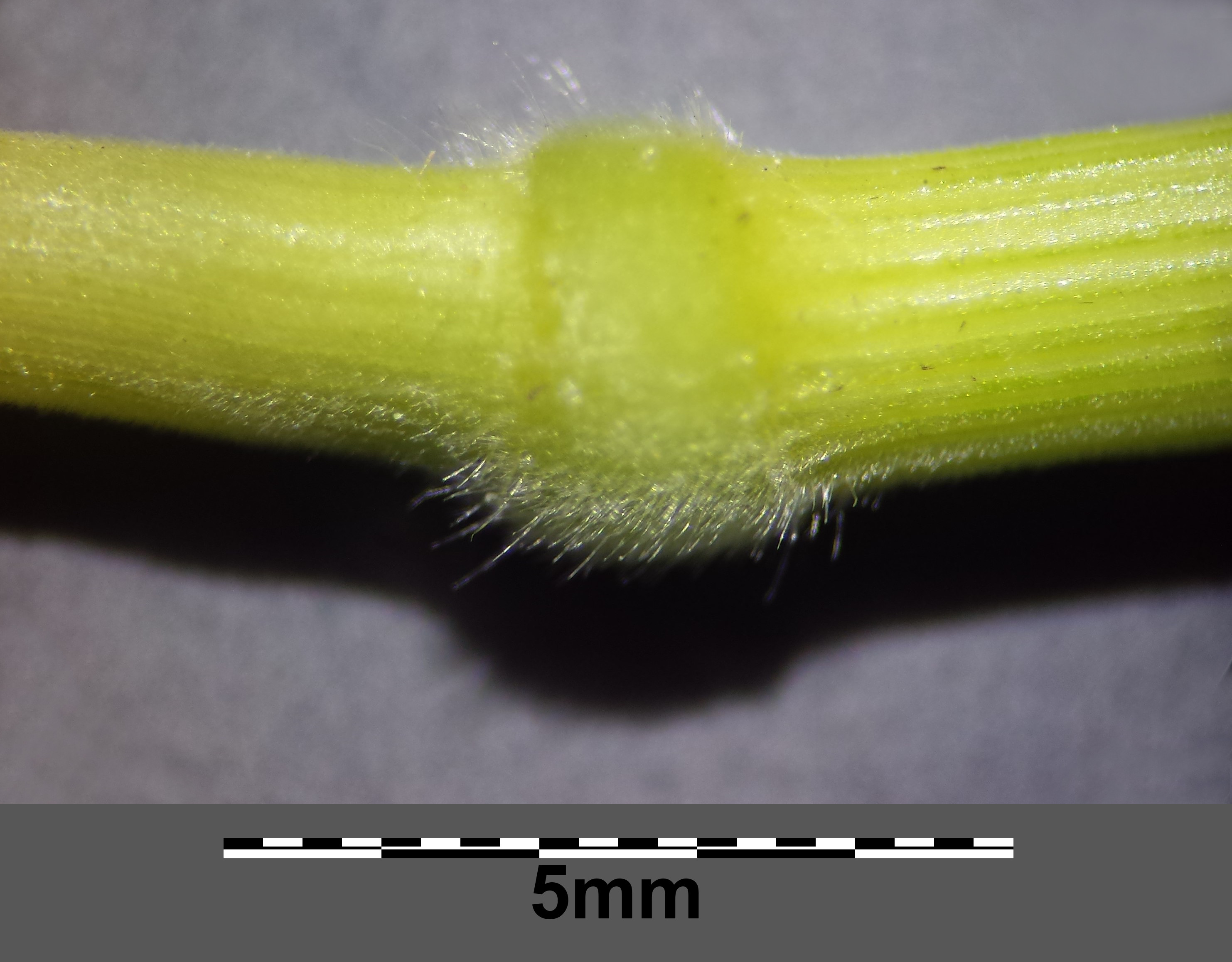 Pubescent node Taxonym: Brachypodium pinnatum ss Fischer et al. EfÖLS 2008 ISBN 978-3-85474-187-9 Location: Latschenberg near Altenmarkt im Thale, district Hollabrunn, Lower Austria - ca. 330 m a.s.l. Habitat: semi-dry grassland